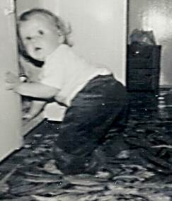 Photograph of a child aged 10 to 12 months (me) caught red-handed going into a cupboard